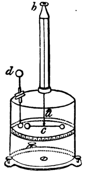 Diagram of a Coulomb electrometer